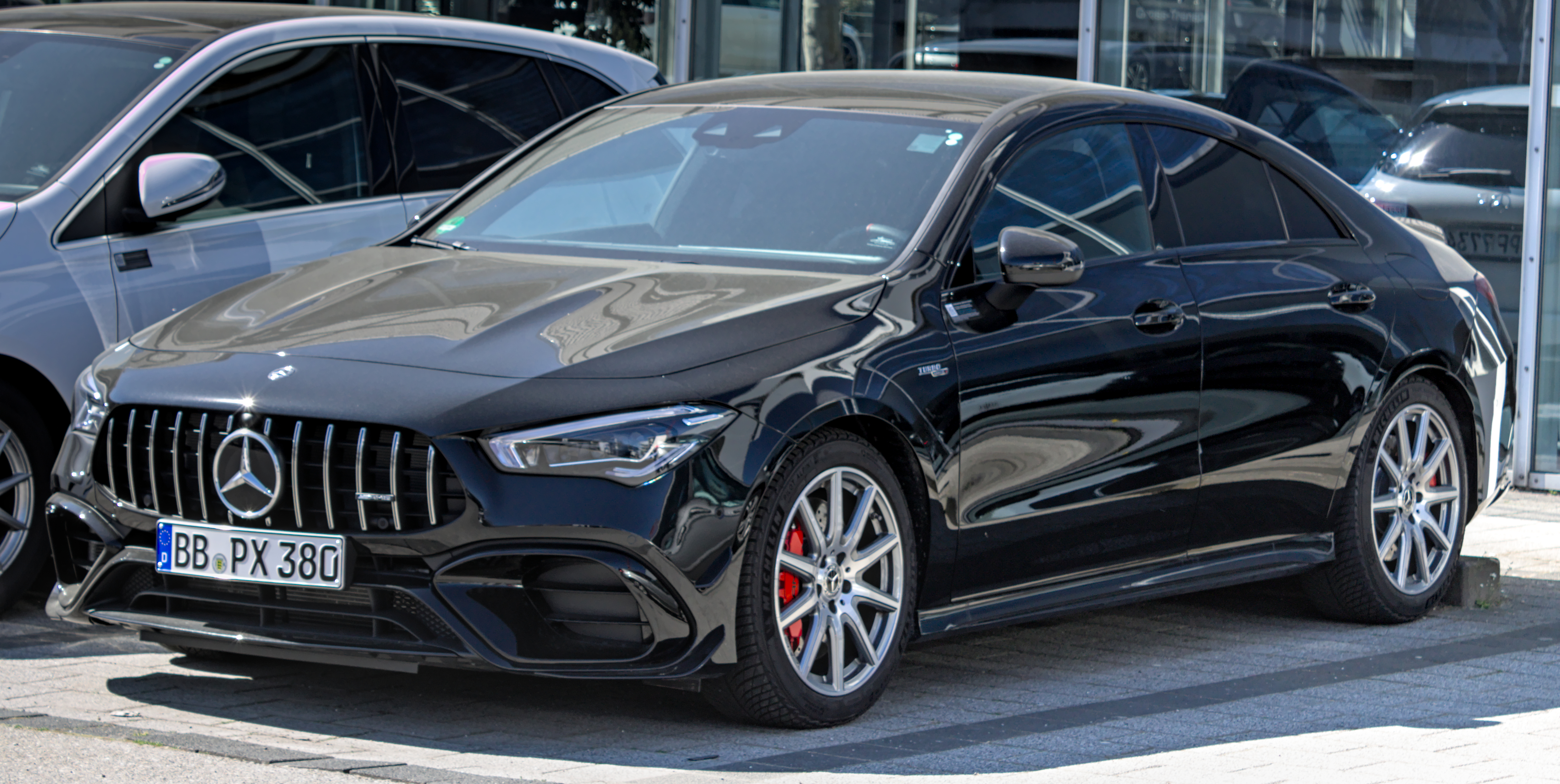 Mercedes-AMG_CLA_45_S_4MATIC+_(C118) in Böblingen